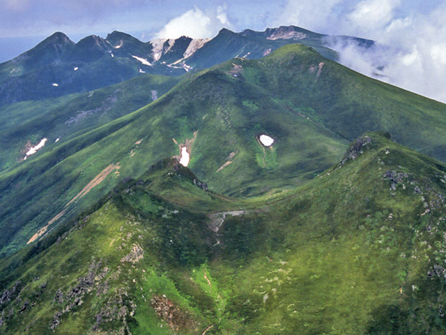 View of the Shiretoko mountains. Looking the Northeast from Mount Rausu in Hokkaido. Sierra de Shiretoko, Hokkaido, Japon. Foto desde Rausu-dakke. Mas anterior y derecho es Mitsu-mine(1509m), Sashirui-dake(1564m)en centro, Iou-zan(1562m, tiene 3 cimas) mas lejo y izquerda. 羅臼岳山頂近くより望む知床連峰。手前より三ツ峰(1509m)、その奥中央部がサシルイ岳(1564m)、遠方左の３つのピークが硫黄山(1562m)